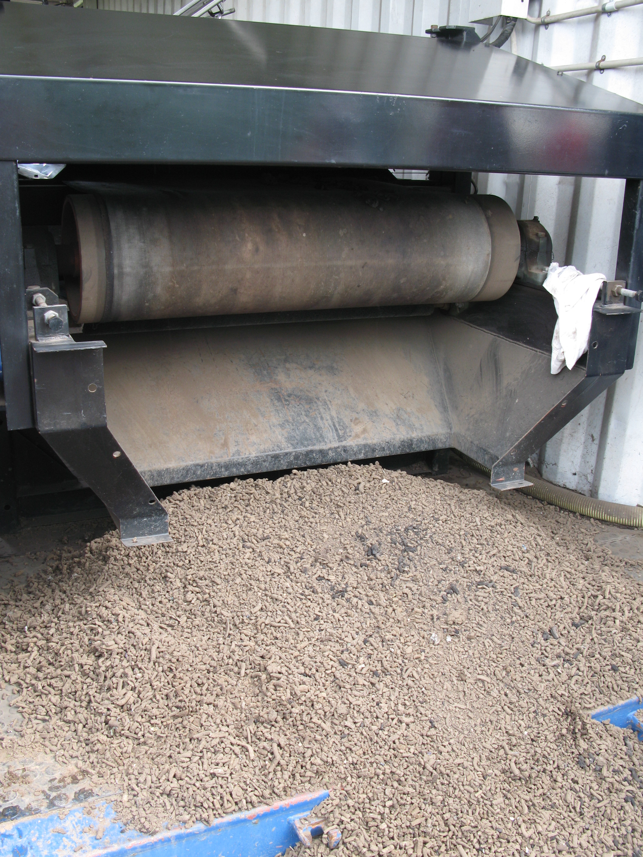 South Africa - eThekwini field trip on faecal sludge management